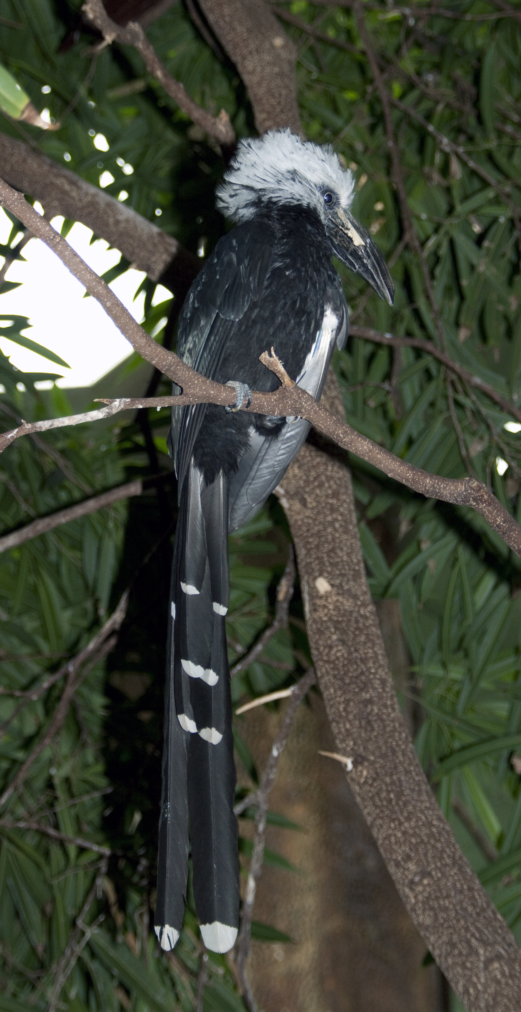 A White-crested Hornbill (also known as Long-tailed Hornbill) at Central Park Zoo, New York, USA.